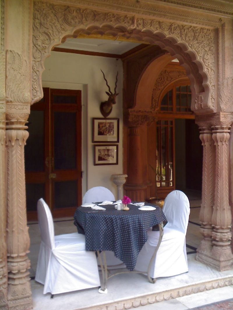 Laxmi Niwas palace, Bikaner, Rajasthan, INDIA